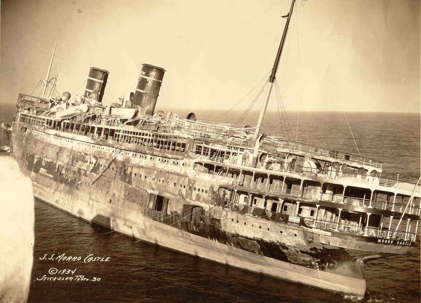 The burned out hulk of the TEL Morro Castle, opposite Convention Hall, Asbury Park, New Jersey.